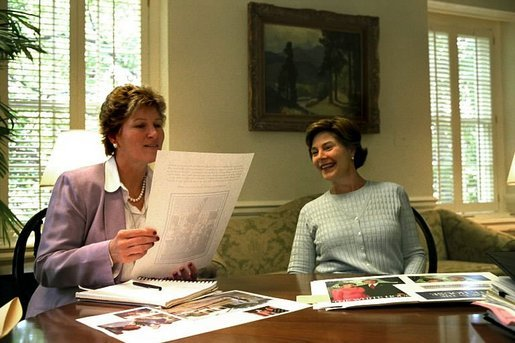 Karen Hughes and Laura Bush discuss publication layouts on June 28, 2002. [1]